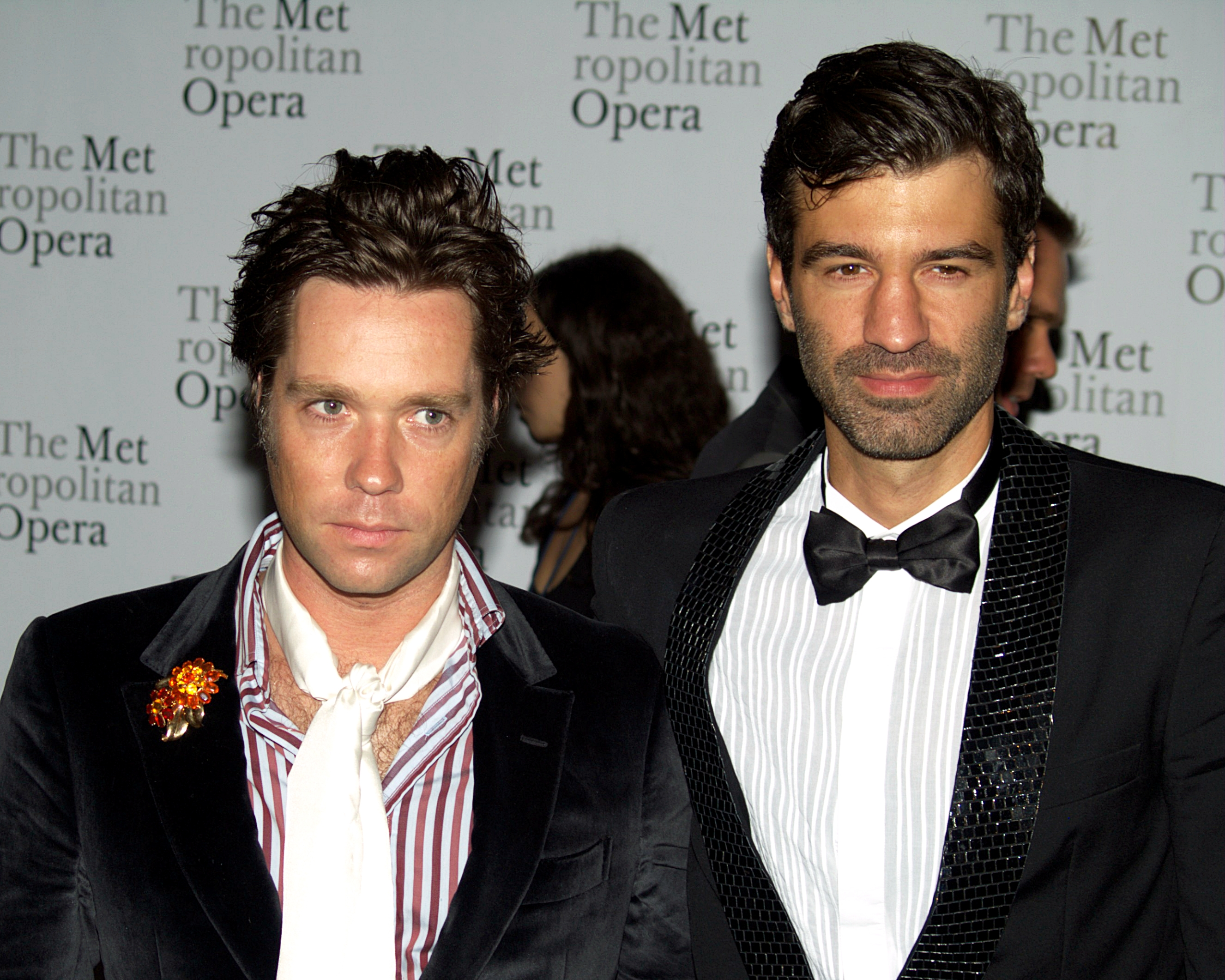 Rufus Wainwright and his boyfriend Jörn Weisbrodt at Metropolitan Opera's 2010-11 Season Opening Night - "Das Rheingold"